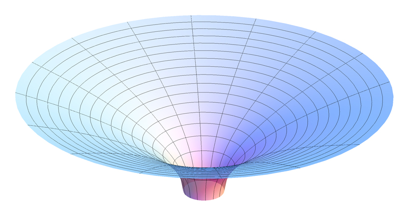 Flamm Paraboloid (exterior Schwarzschild solution)